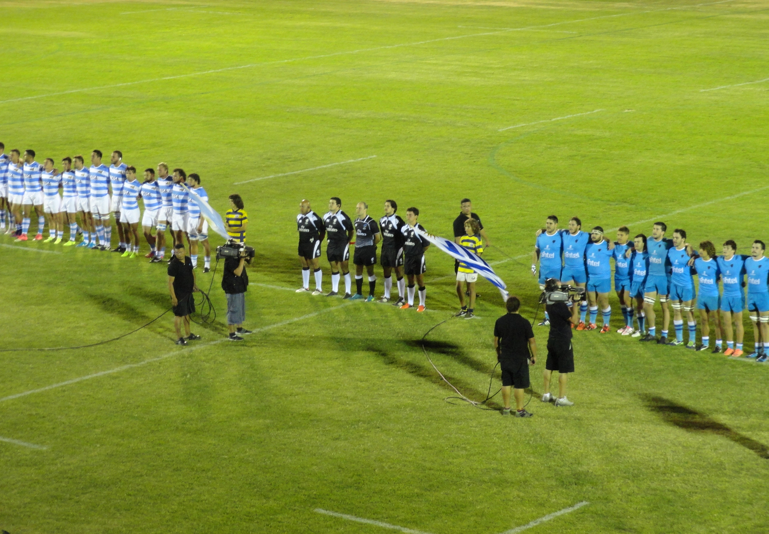 Uruguay's Teros vs Argentina XV match at the 2018 Americas Rugby Championship.